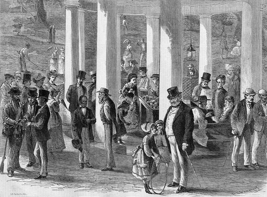 At White Sulphur Springs, in [West] Virginia, a wood engraving printed October 1870 in Every Saturday, published by James R. Osgood & Company, Boston, Massachusetts.